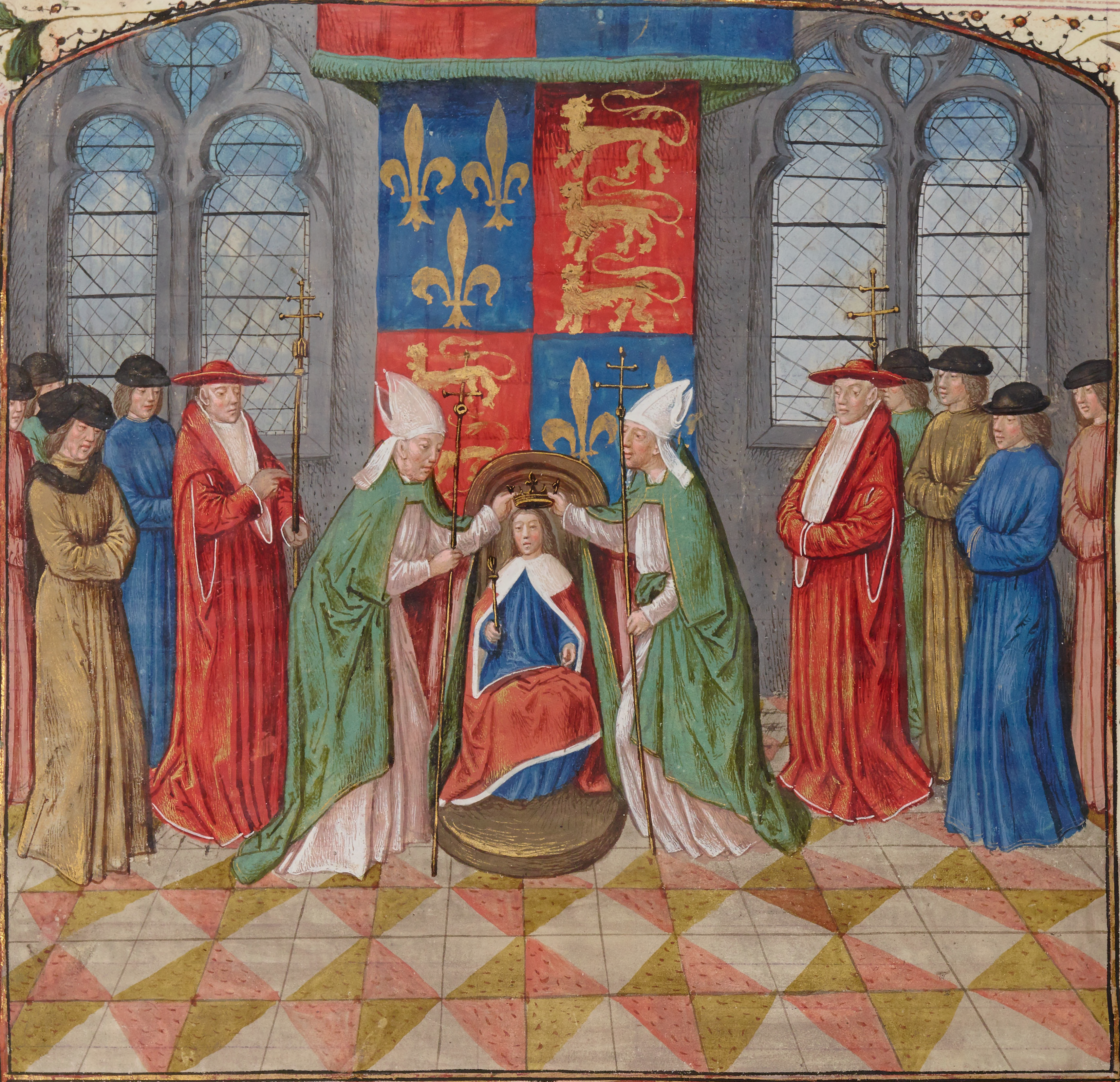 King Henry VI of England is crowned as King of France. (Bibliothèque nationale de France, MS Français 83, fol. 205.)